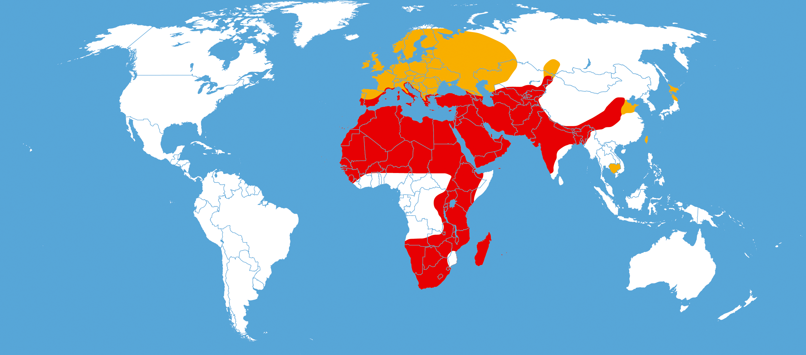 Distribution map of Hyles livornica;red: All year distribution, Orange: Summer distribution possible This map has been made or improved in the German Kartenwerkstatt (Map Lab). You can propose maps to improve as well.